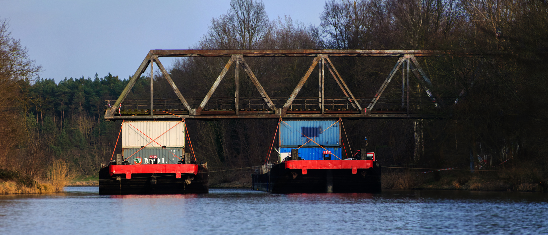 The old railway bridge (formerly Güsen - Jerichow) during disassembly over the Pareyer connecting canal